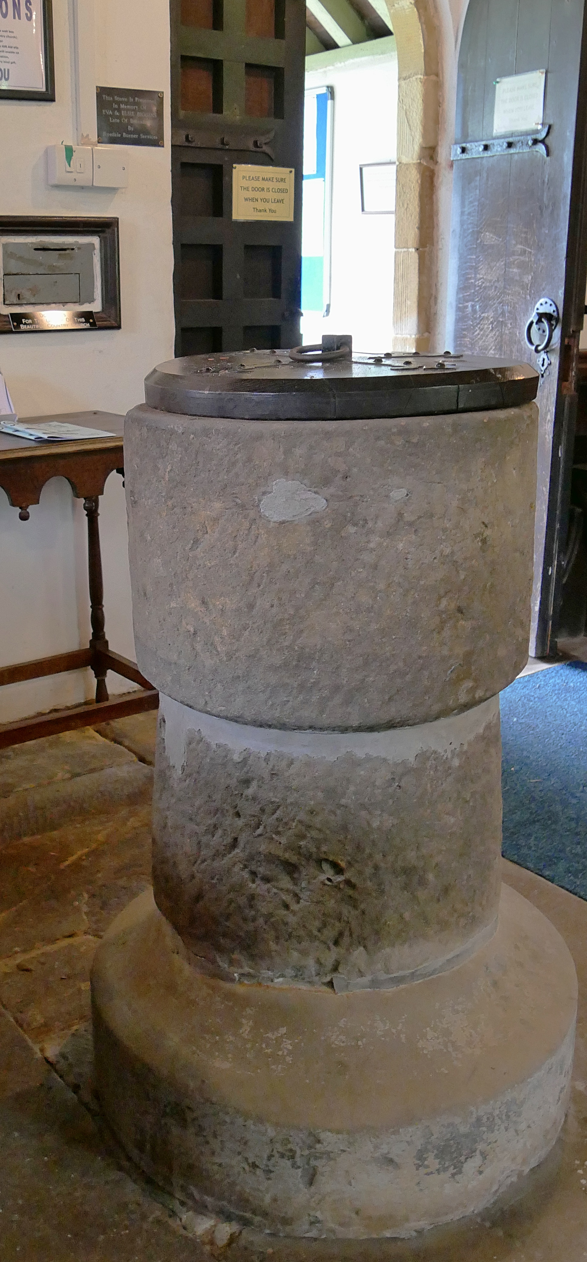 Stone baptismal font in St Nicholas' parish church, Cockayne, Bransdale, North Yorkshire